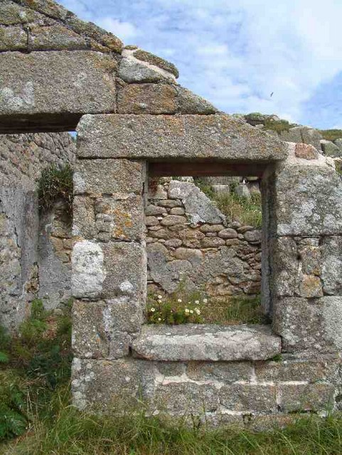 The Pest House St Helen's This was a Quarantine post for ships returning to Britain - The story goes that sick sailors were abandoned to their fate rather than quarantined. It was built in 1764.